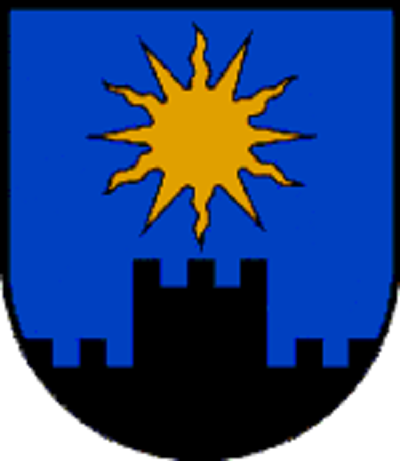 Source: "Fahnen-Gärtner GmbH, Mittersill" This file depicts a coat of arms. The composition of coats of arms are generally public domain with respect to copyright laws, and may be reproduced freely. This corresponds to the international traditional usage, and is explicitly stated in some national copyright laws. Some compositions, of more recent origin, may be copyrighted. This is not a valid license as such, being a "public domain" statement for the coat of arms definition only. It must be completed with the copyright tag associated to the picture creation. See Commons:Coats of arms for further information. Please note that this applies only to the coat of arms definition (composition / description). The representation of a coat of arms is an artistic creation, subject as such to copyright laws. Restriction of use - Legal notice: Most of the time, the usage of coats of arms is governed by legal restrictions, independent of the status of the depiction shown here. A coat of arms represents its owner. Though it can be freely represented, it cannot be appropriated, or used in such a way as to create a confusion with or a prejudice to its owner. Usage on Commons: Please provide licence information for the coat of arm representation, information for the author of the picture, and the source if not self-made work. This image is in the public domain according to Austrian copyright law because it is part of a law, ordinance or official decree issued by an Austrian federal or state authority, or because it is of predominantly official use. (§7 UrhG) To uploader: Please provide where the image was first published and who created it.